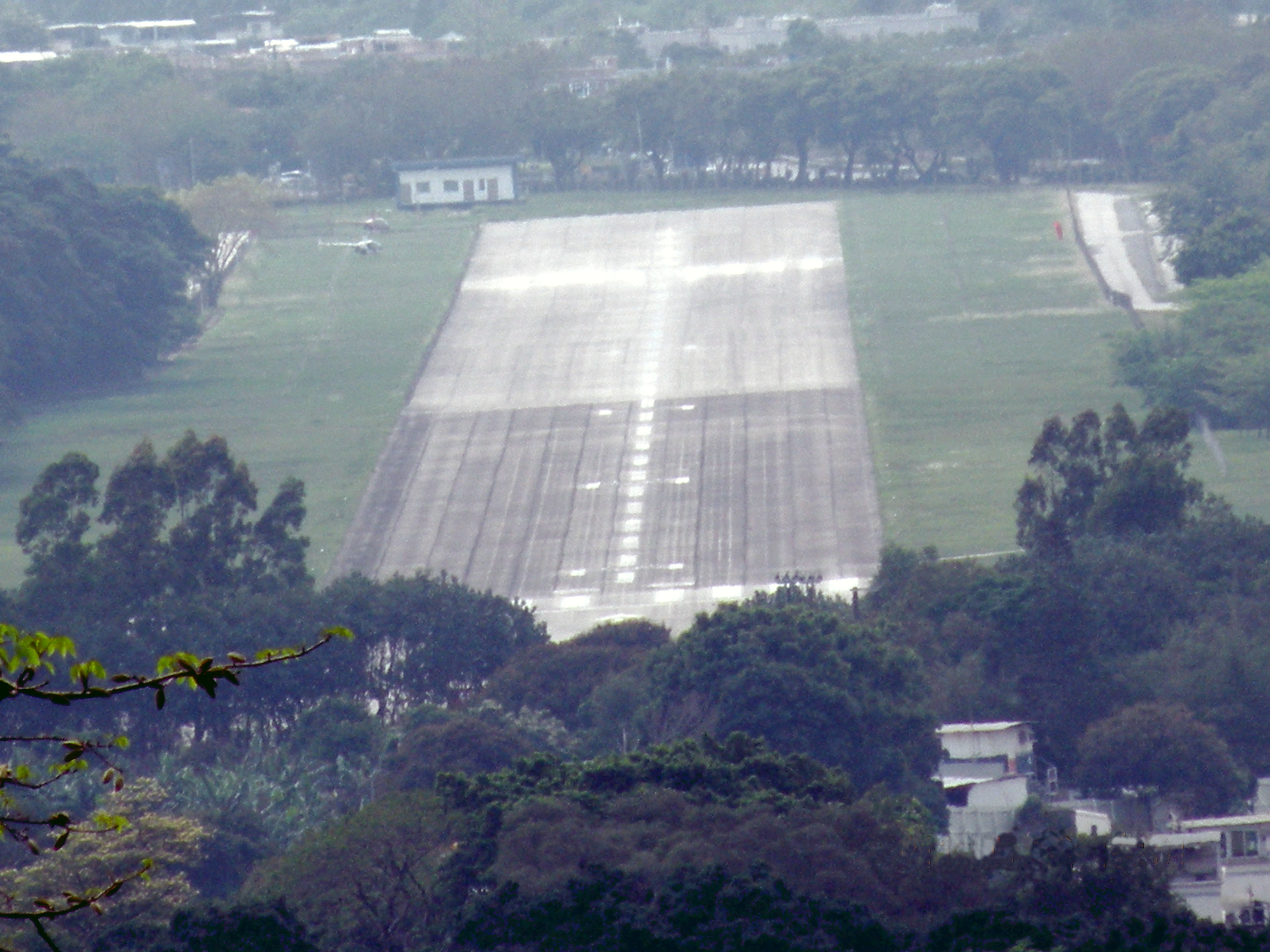 Runway of Shek Kong Airfield, Hong Kong 中文（香港）: 香港石崗機場跑道